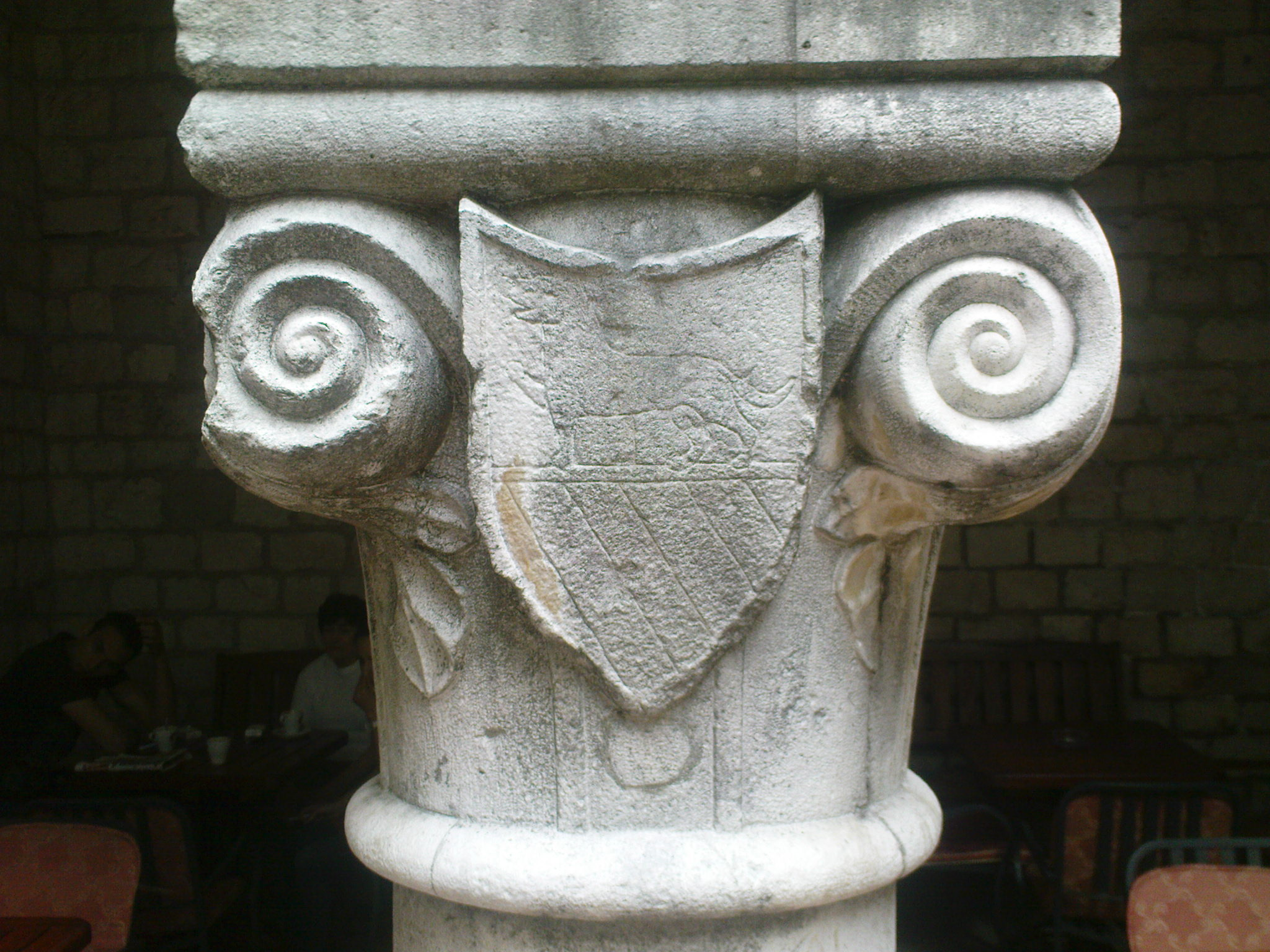 Coat of arms of noble family Cindro